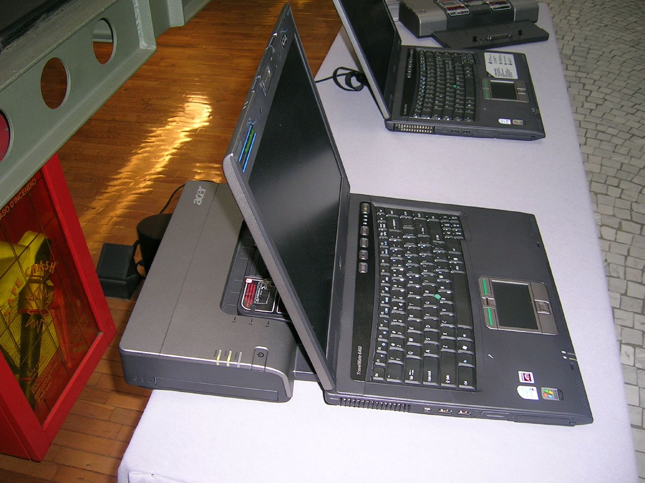 Dockingstation for an Acer TravelMate laptop.